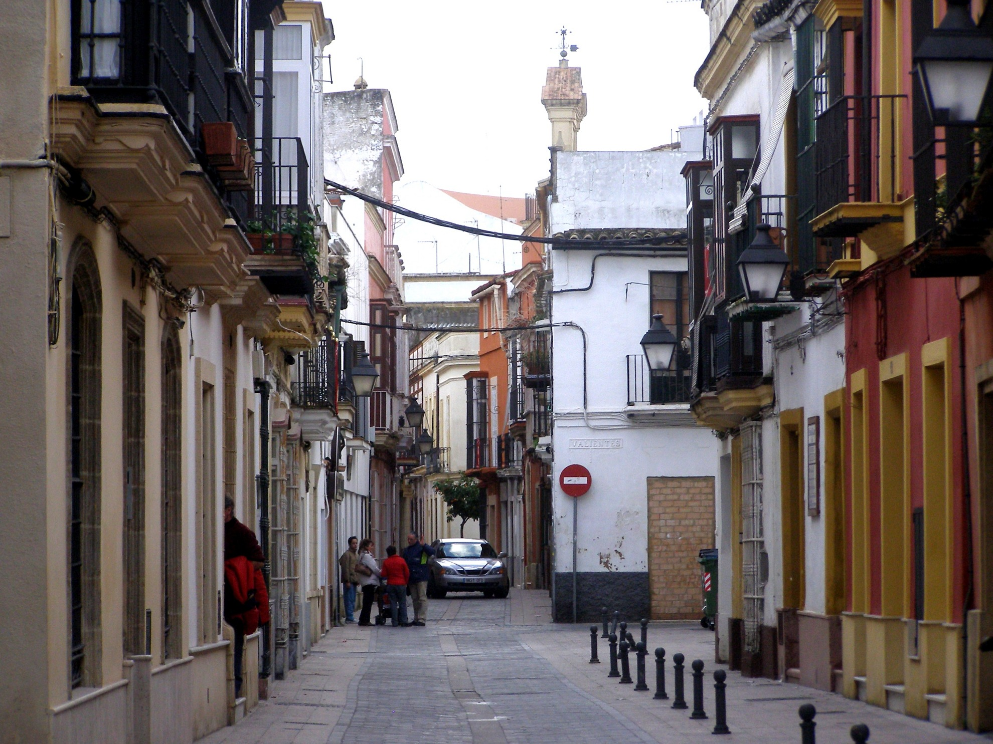 Bizcocheros St. Jerez